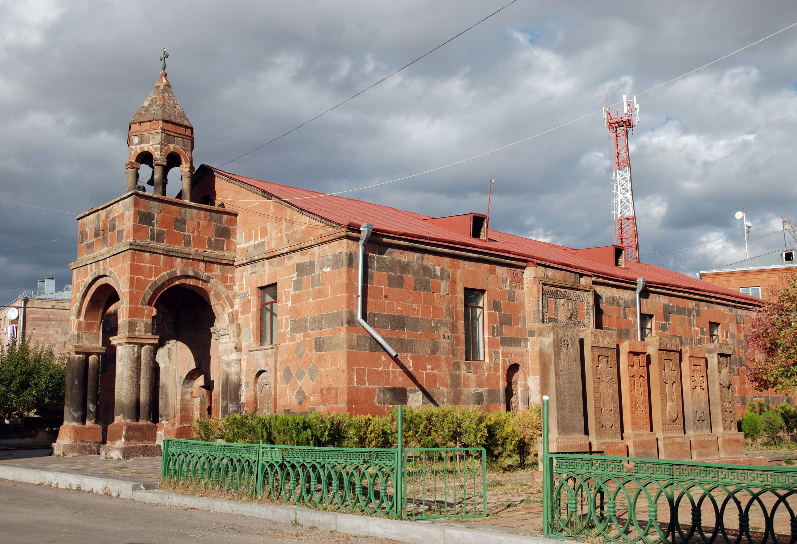 Talin, church in town center